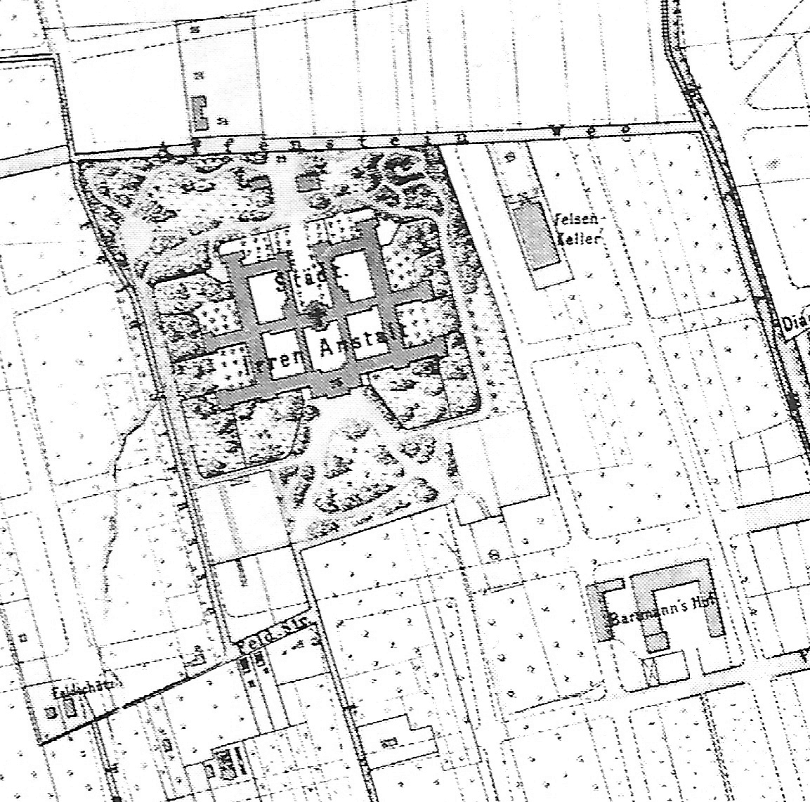 Frankfurt/M., Germany: Map of the Affenstein or Irrenschloss (“loony palais”), psychiatric institution founded in 1851 by psychiatrist Heinrich Hoffmann. Detail of a town map created in 1887